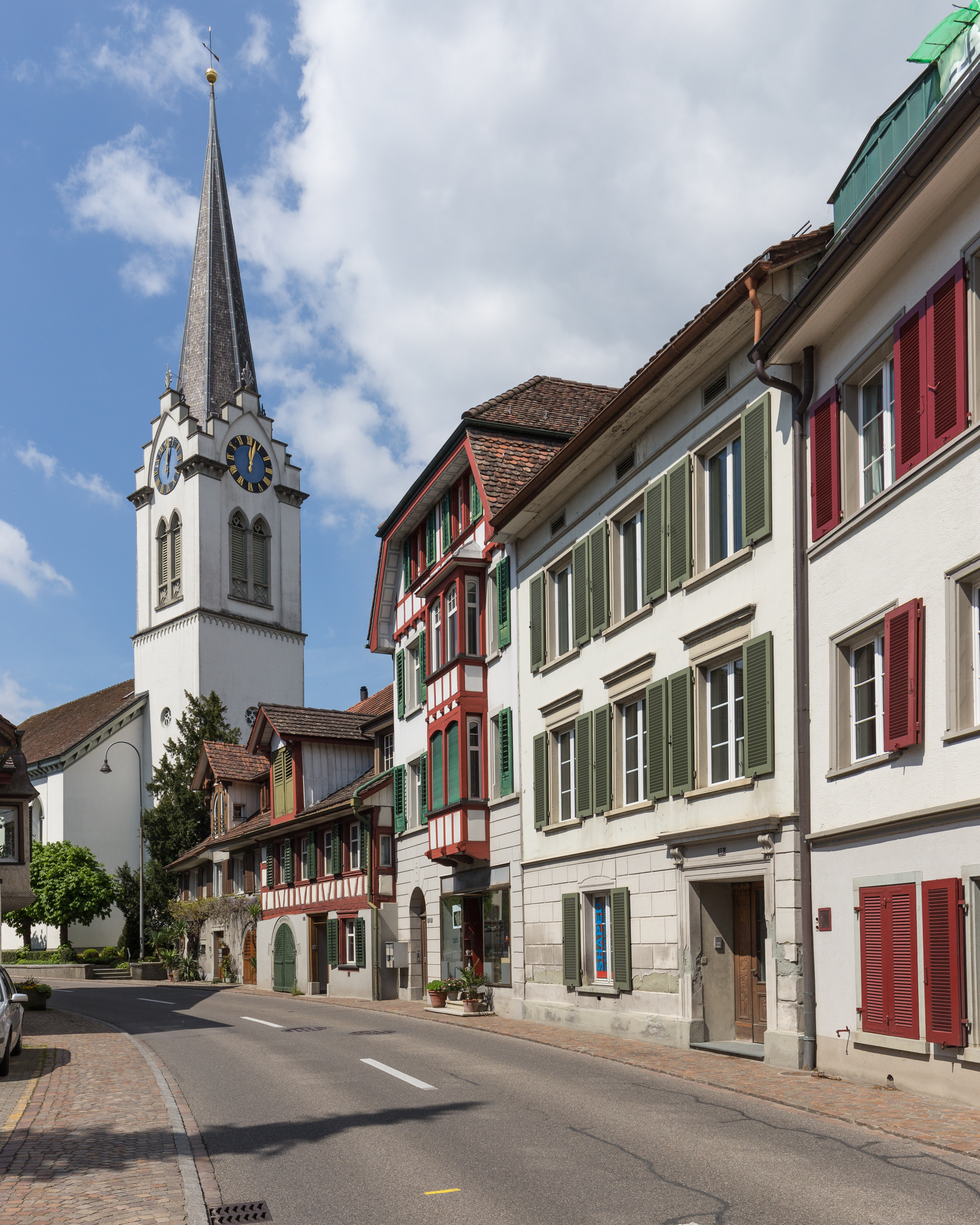 Seestrasse (Lake street) and Reformed Church in Berlingen, canton of Thurgau, Switzerland